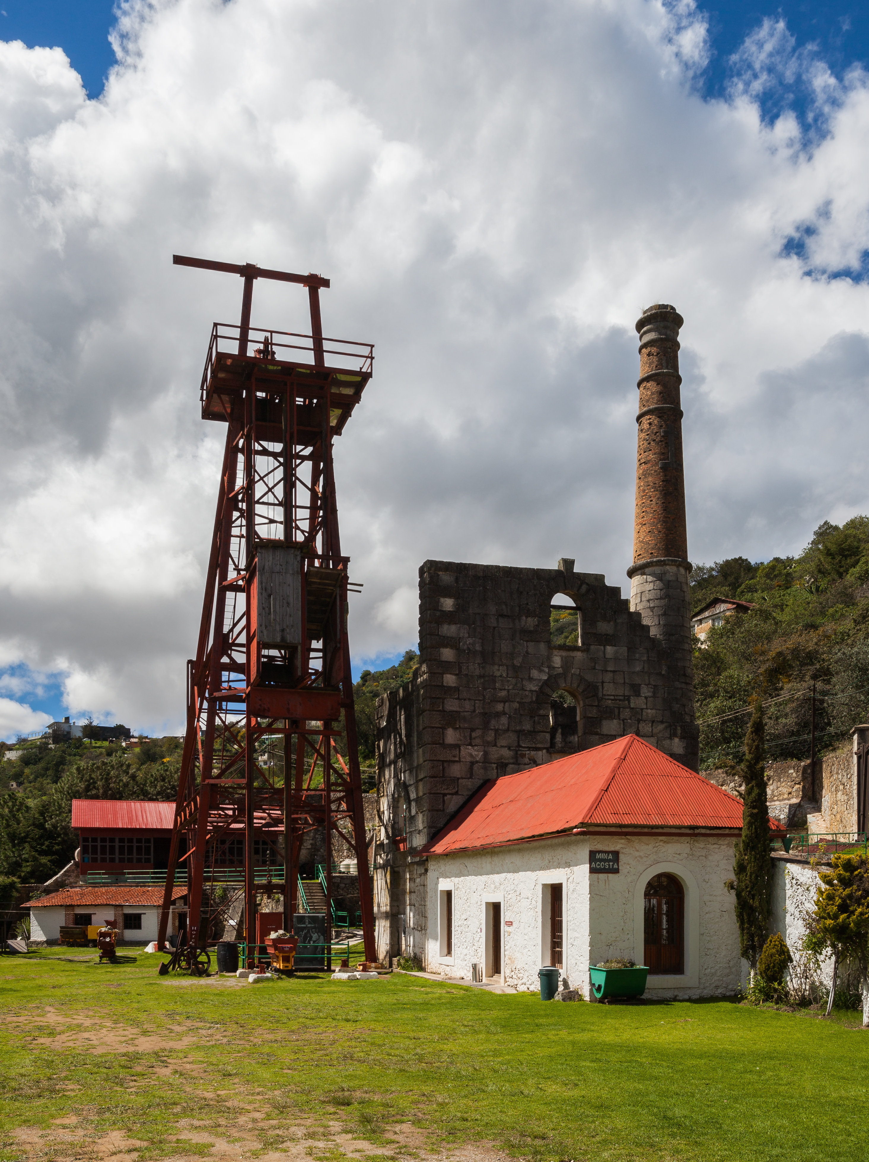 Acosta Mine, Real del Monte, Hidalgo, Mexico